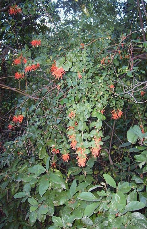 Tristerix corymbosus without watermark